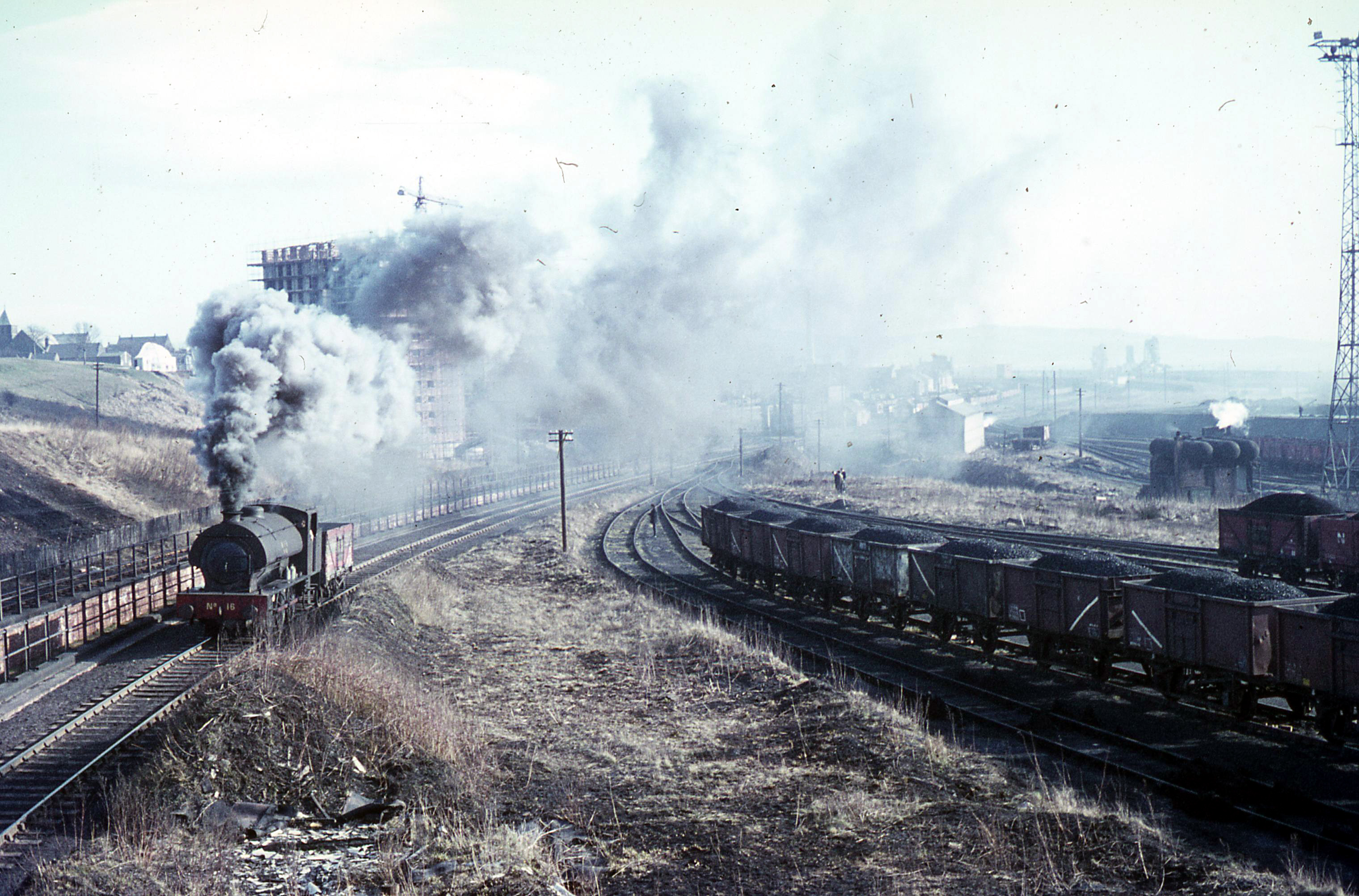 Saddle Tank Locomotive No 16 at Methil, Fife, Scotland in 1970